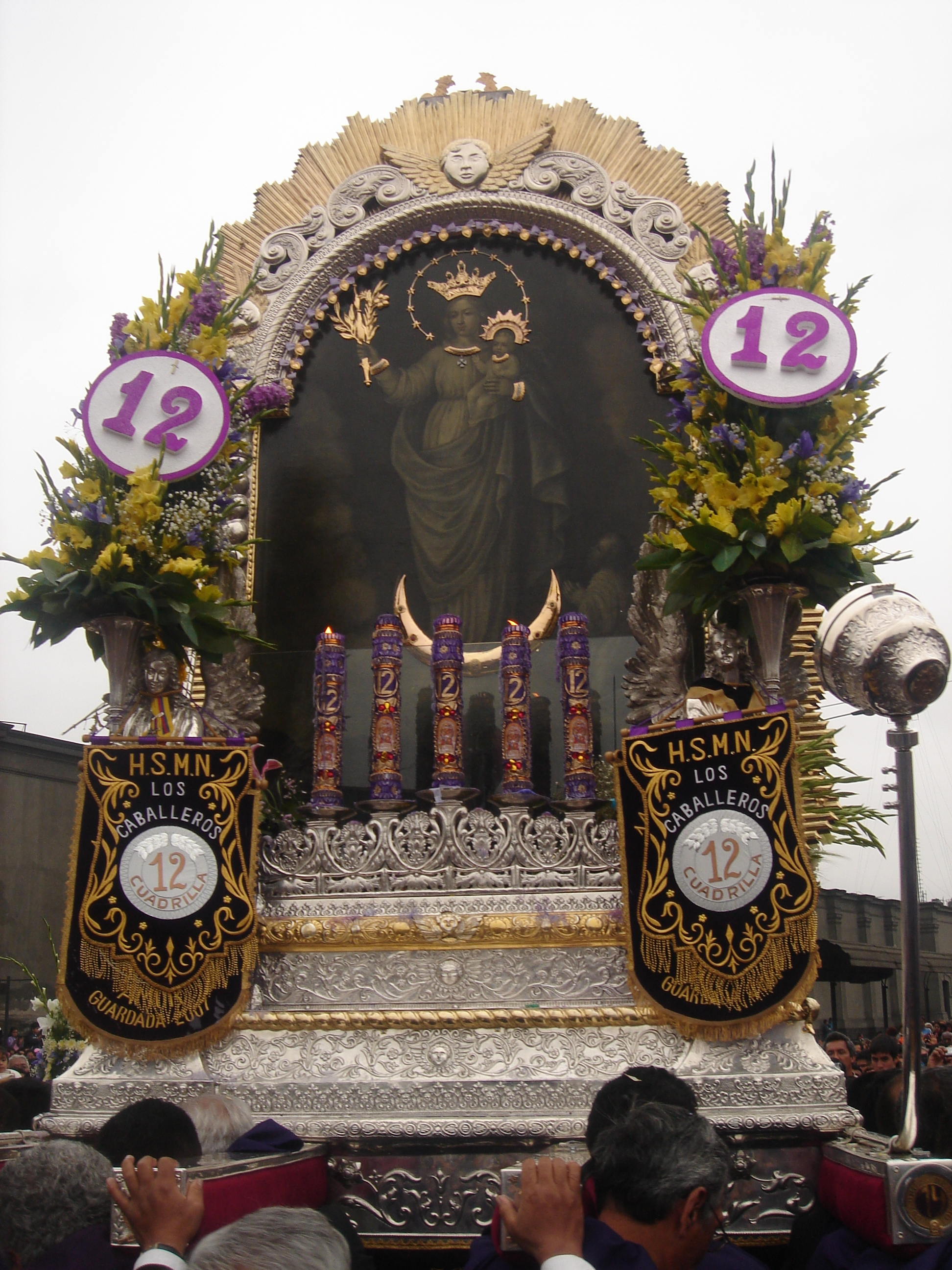 Our Lady of the Cloud - Señor de los Milagros Procession, Lima-Peru.